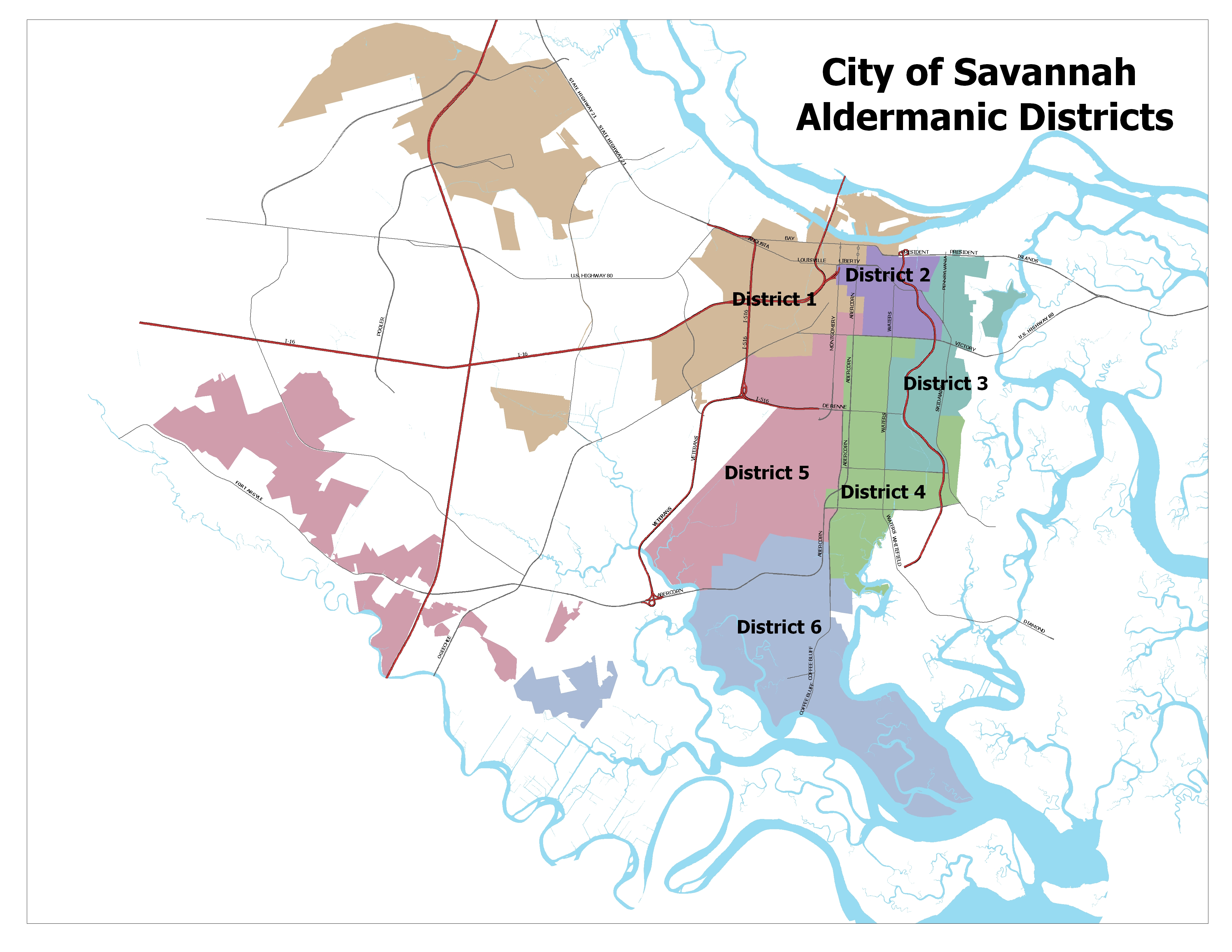 Map showing the Aldermanic Districts of Savannah, GA